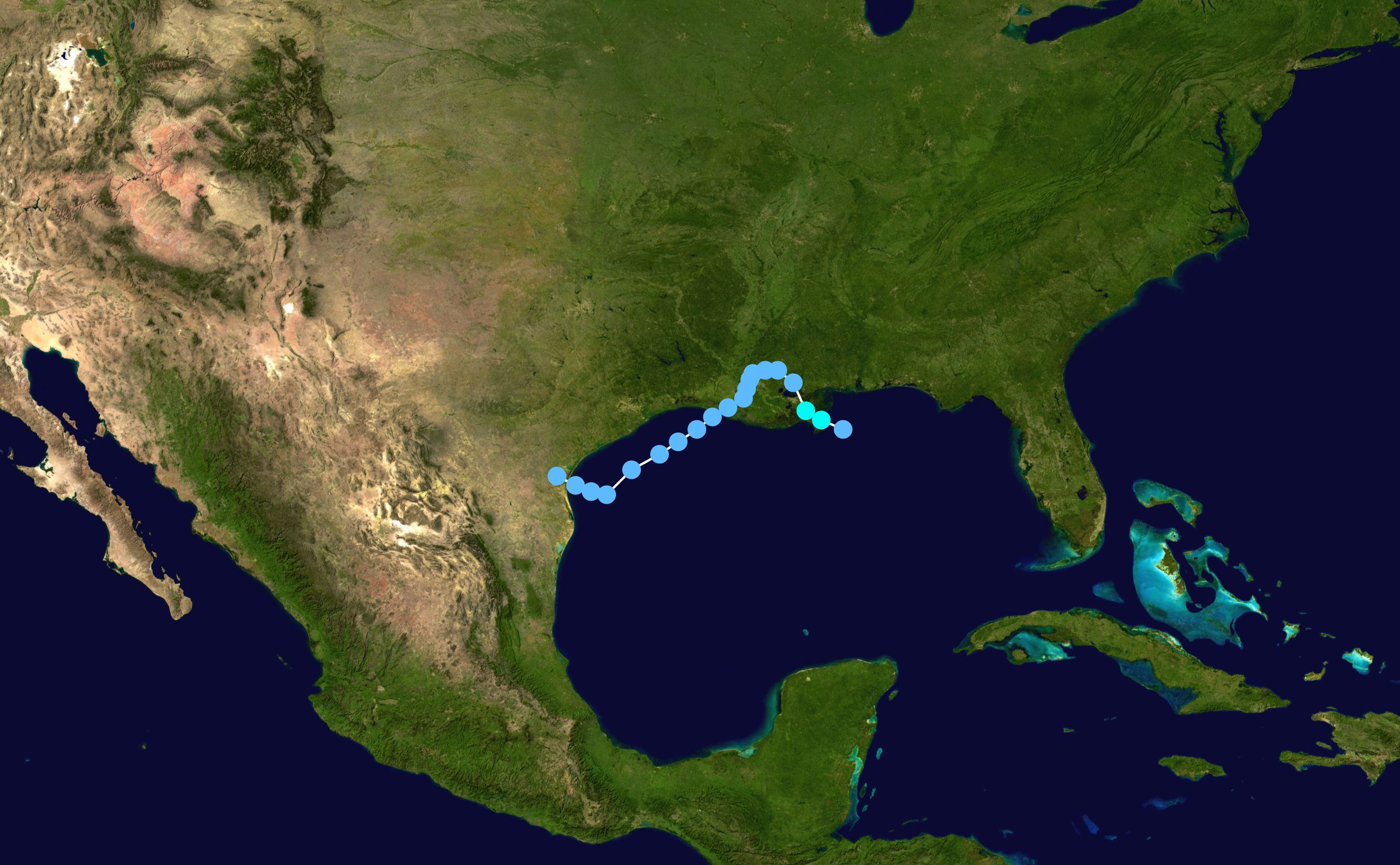 Track map of Tropical Storm Bertha of the 2002 Atlantic hurricane season. The points show the location of the storm at 6-hour intervals. The colour represents the storm's maximum sustained wind speeds as classified in the Saffir–Simpson scale (see below), and the shape of the data points represent the nature of the storm, according to the legend below. Saffir–Simpson scale Tropical depression≤38 mph≤62 km/h Category 3111–129 mph178–208 km/h Tropical storm39–73 mph63–118 km/h Category 4130–156 mph209–251 km/h Category 174–95 mph119–153 km/h Category 5≥157 mph≥252 km/h Category 296–110 mph154–177 km/h Unknown Storm type Tropical cyclone Subtropical cyclone Extratropical cyclone / Remnant low / Tropical disturbance / Monsoon depression